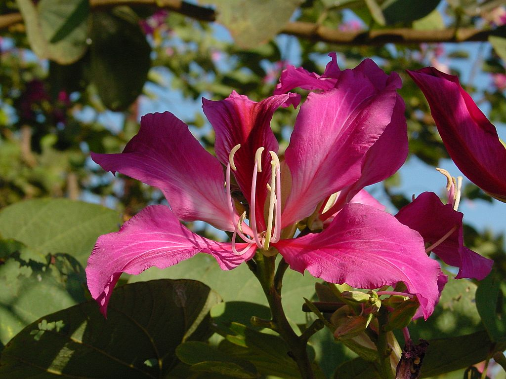 bauhinia (photo Wouter Hagens)